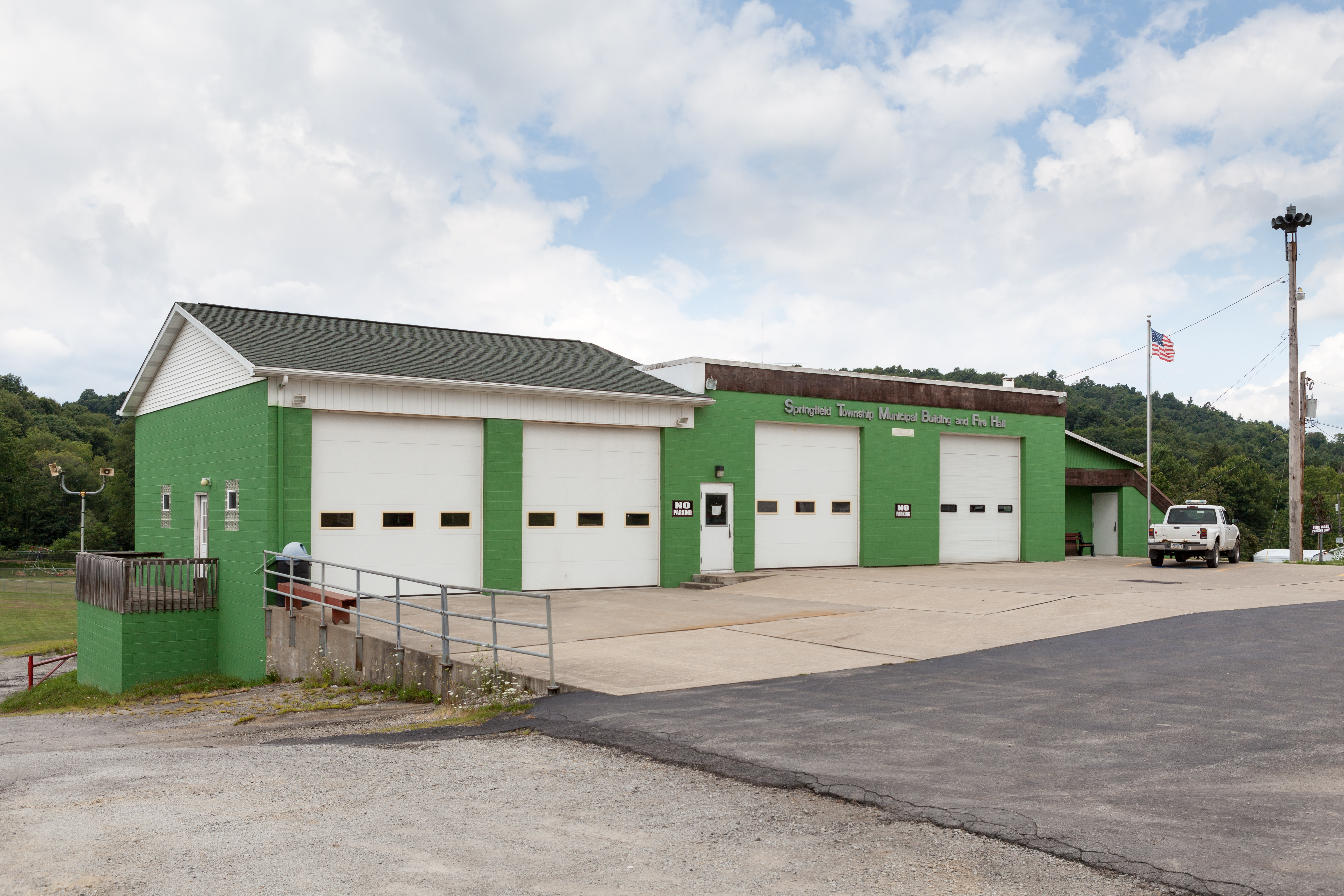 Springfield Township Municipal Building and Fire Hall on Mill Run Road south of Hampton Road in Springfield Township, Fayette County, Pennsylvania.